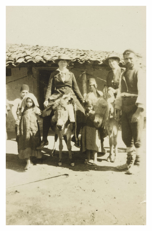 Photograph of Scottish nursing orderly, Ethel Moir and Cecilia Mary Douglas from 1918 found in the diaries of Ethel Mary Moir. The diaries were kept by Ethel during her time with The Scottish Womens Hospital (SWH) during World War One.